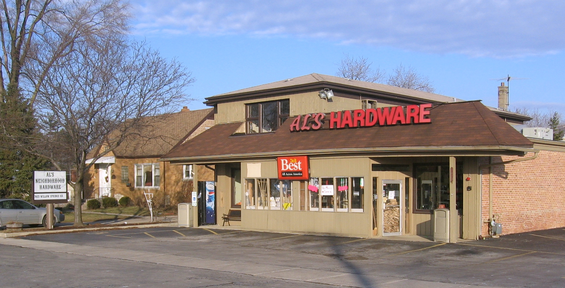 A photo of Al's Hardware in Countryside, Illinois, founded by Al Suomi, a former Chicago Blackhawks player.